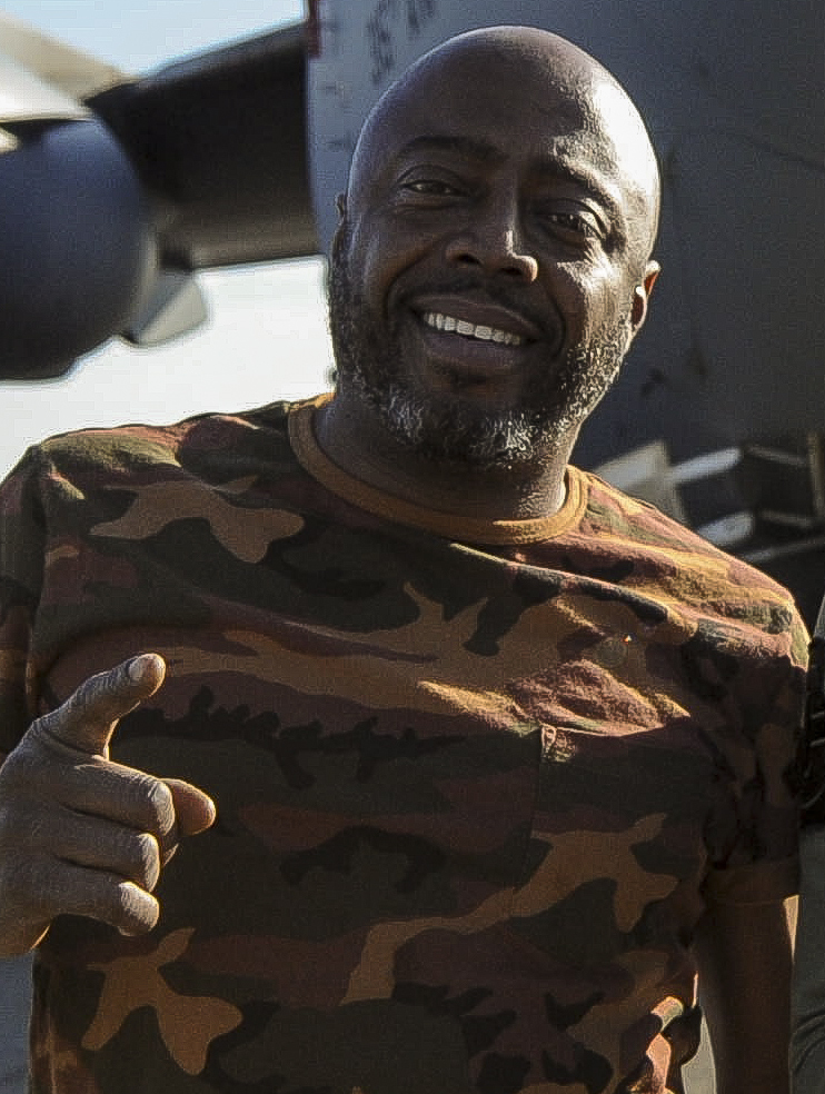 Dave Chappelle (right) and Donnell Rawlings, actors and comedians, stand in front of a C-17 Globemaster III Feb. 2, 2017, at Joint Base Charleston, S.C. Chappelle was in town for his stand-up comedy show when he made the visit to see service members and federal civilians at the base. (U.S. Air Force photo/Senior Airman Tom Brading)